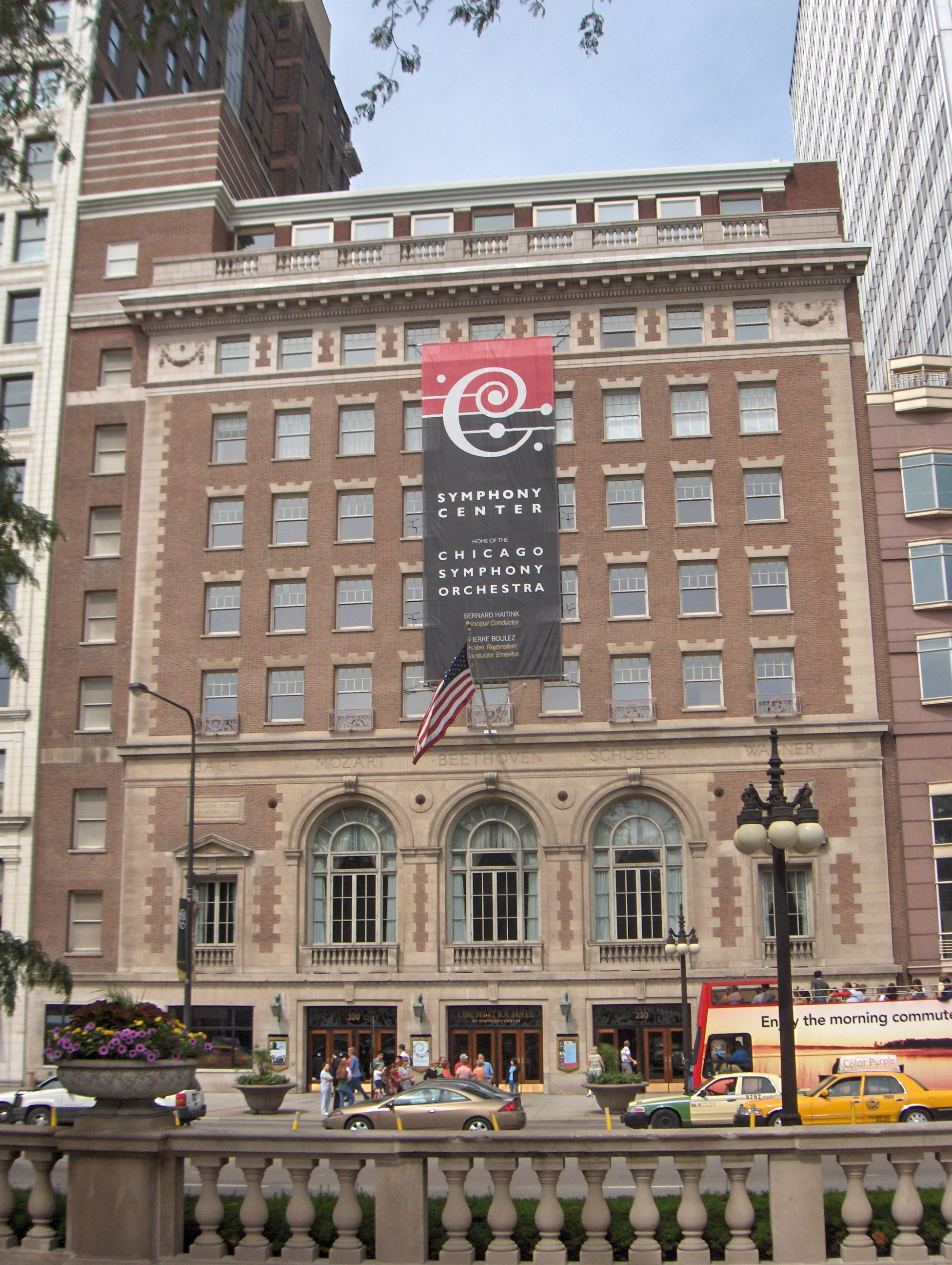 Orchestra Hall, Michican Ave., Chicago,Illinois, part of the Symphony Center, seen from the across the street at the Art Insitute. Route 66 passed by the north end of the building along Adams Ave.